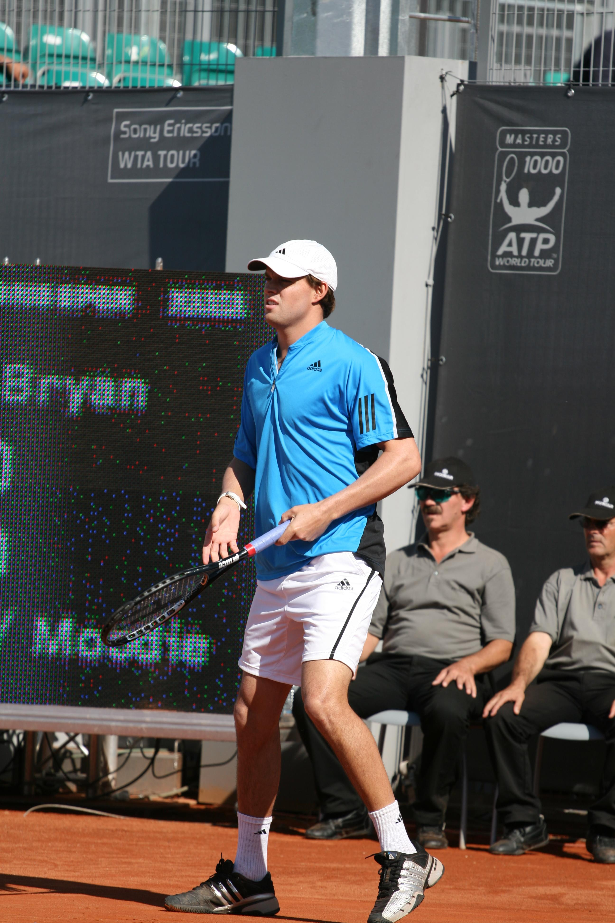 Bob Bryan and partner Mike Bryan (unseen) against Simon Aspelin and Wesley Moodie in the 2009 Mutua Madrileña Madrid Open second round